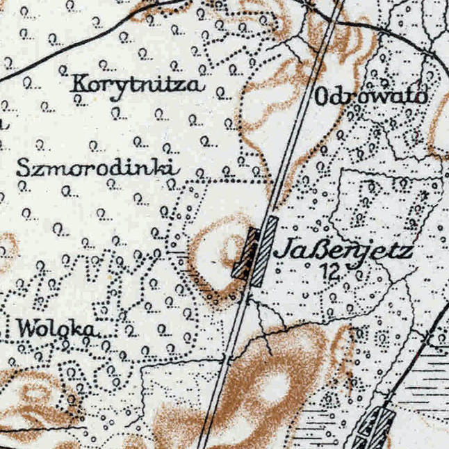 Yasynets on the map "Karte des Westlichen Russlands", T 35, 1917. According to Digital Repository of Scientific Institutes and Kujawsko-Pomorska Digital Library the map is in the public domain.